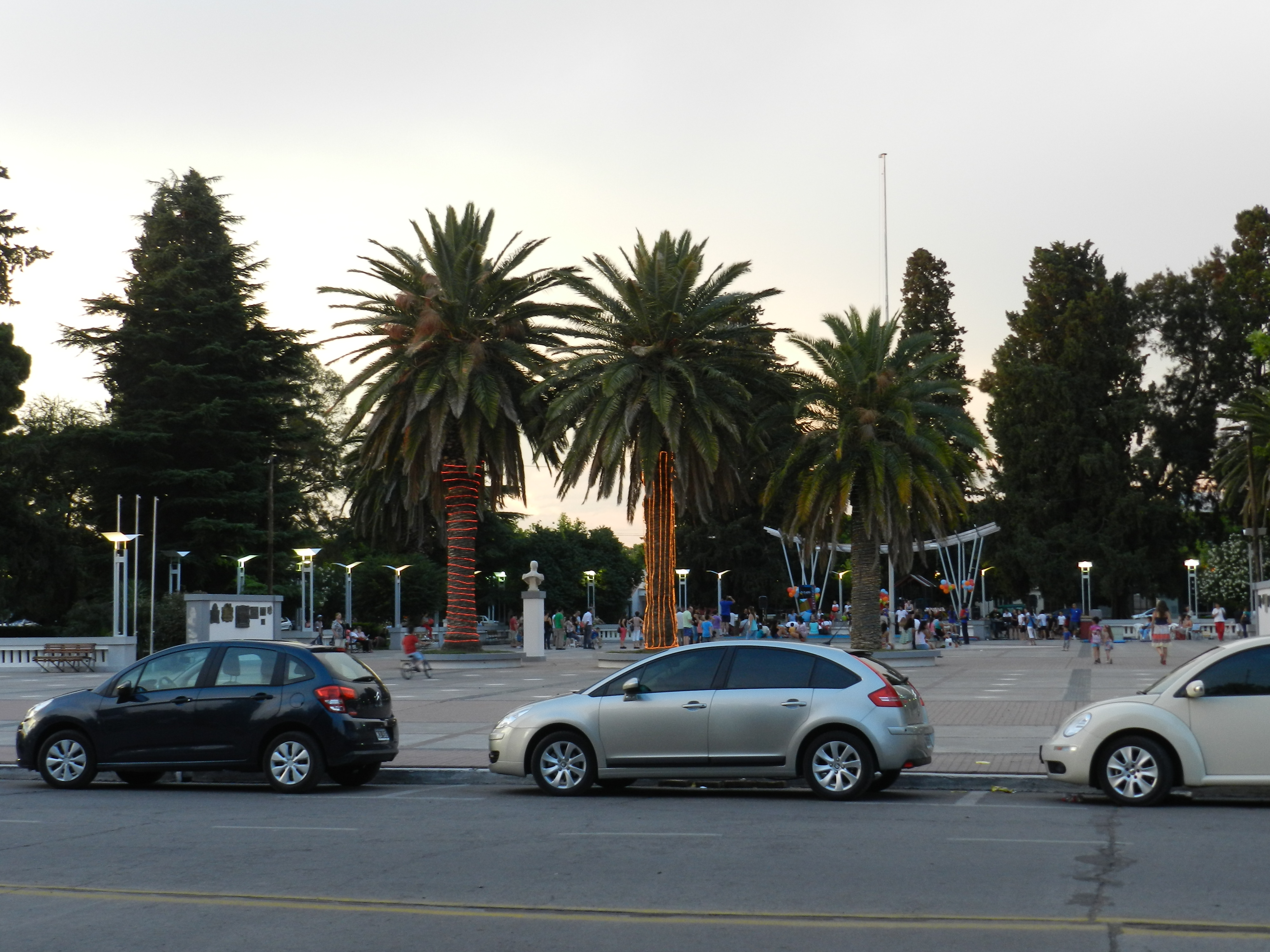 Central square in General Alvear, Mendoza